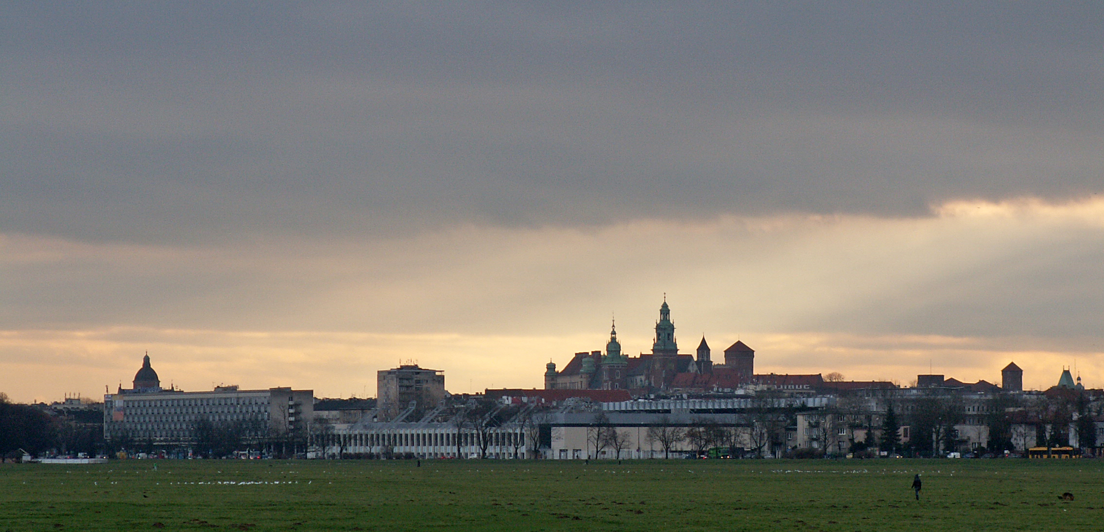 Polwsie Zwierzynieckie,view from NW,Krakow,Poland